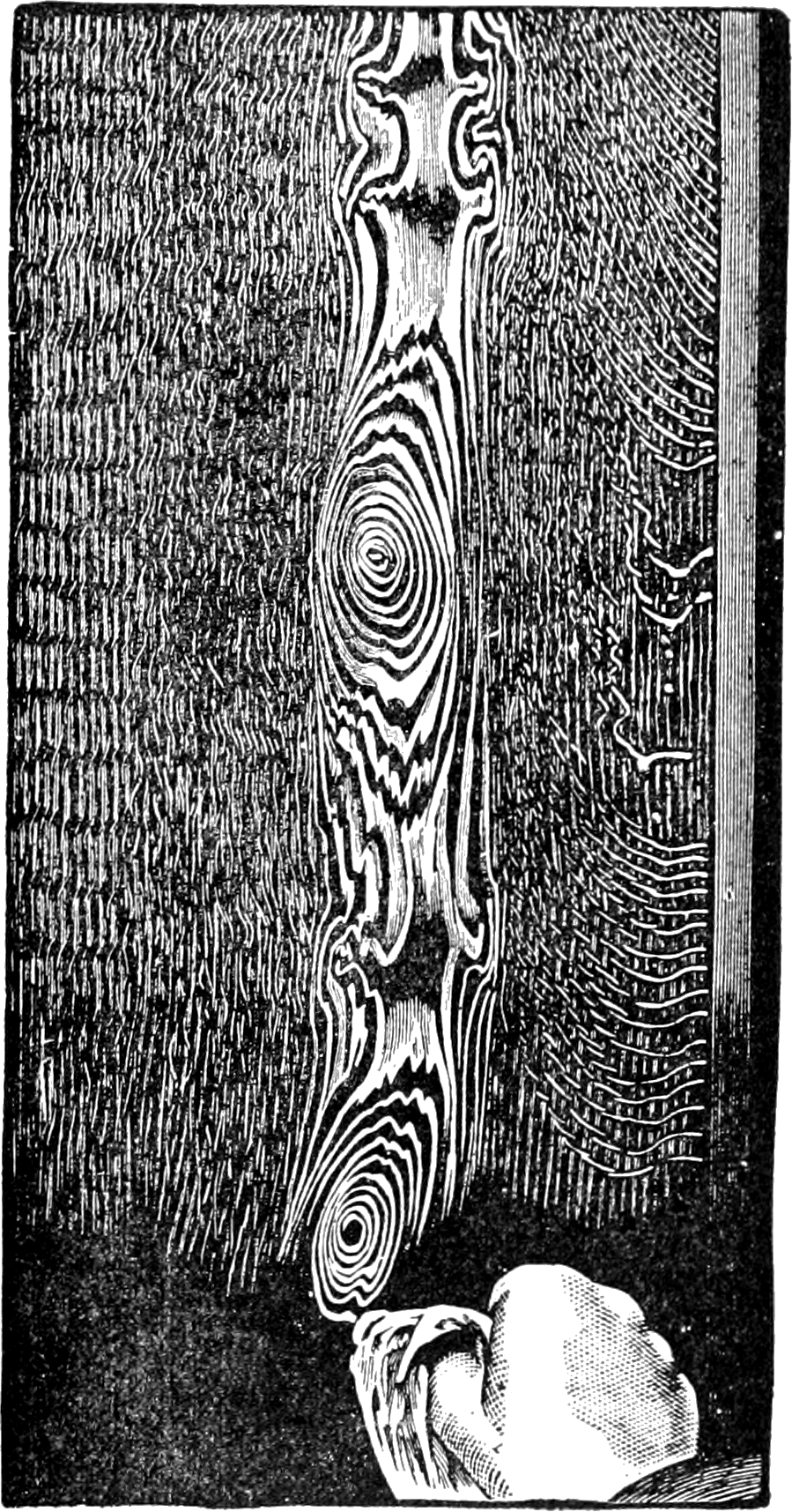 Illustration from Cyclopedia of Painting. Wiping Out Sap in Oak Graining.